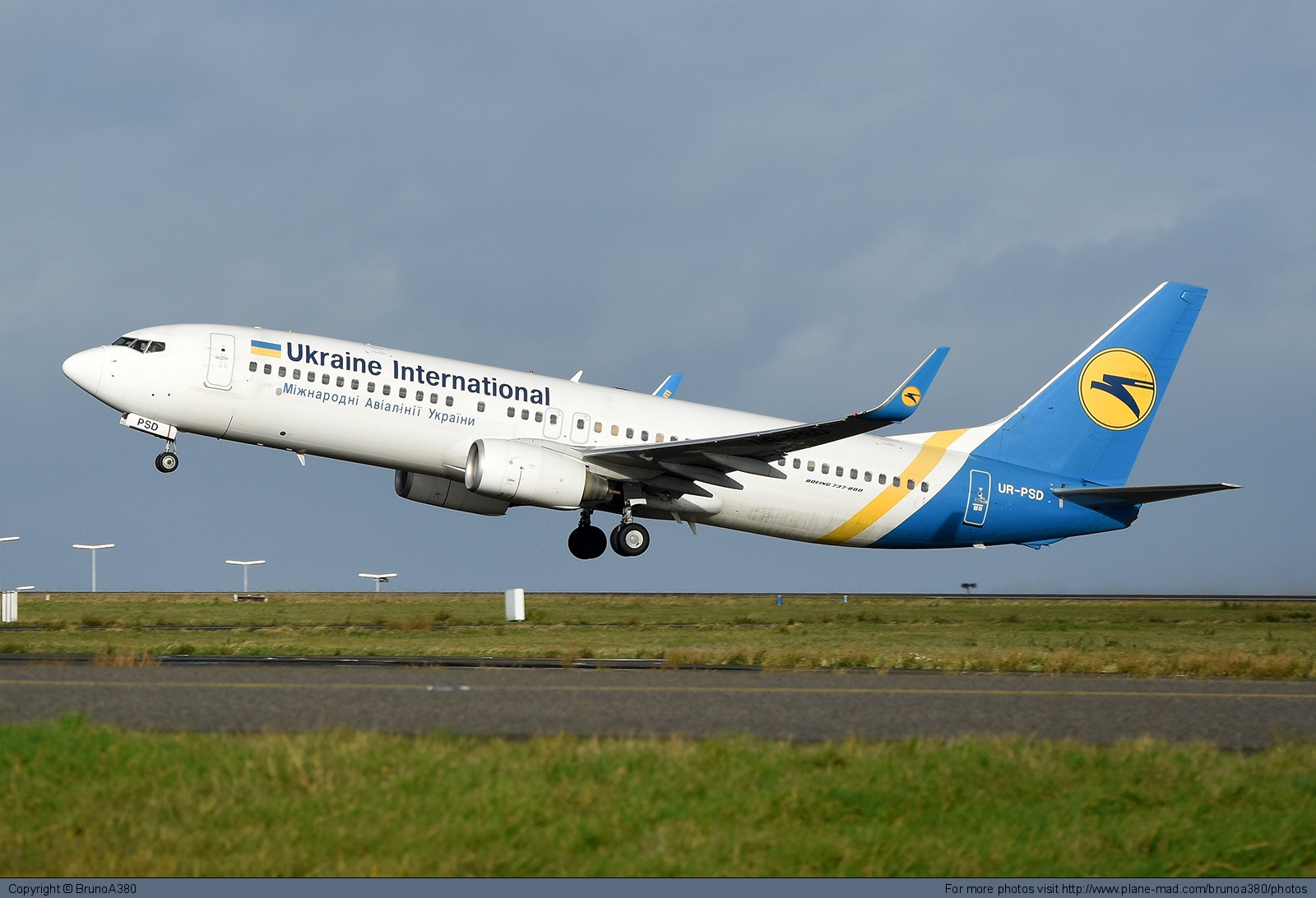 Ukraine International Boeing 737-800 (UR-PSD)